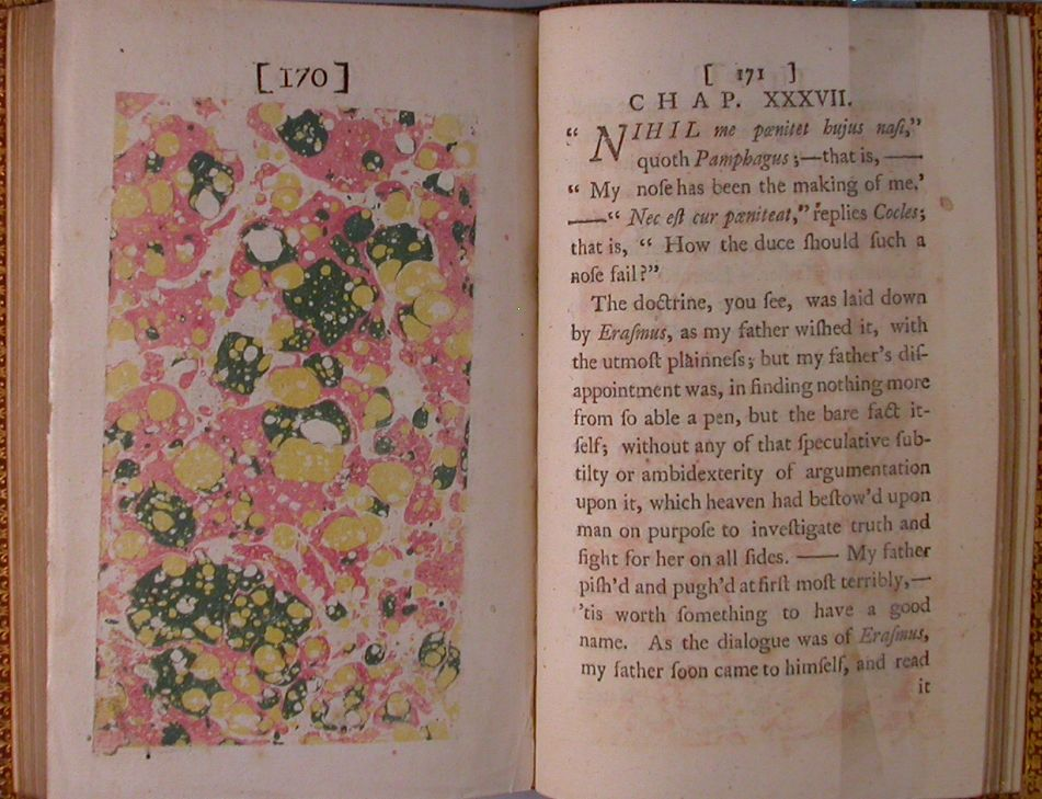 Marbled page from The Life and Opinions of Tristram Shandy, Gentleman First edition. Volume 3. Publisher Hogarth; Ravenet; Dodsley, R.; Wood, H.; Monkman, Kenneth; Apencer, Walter T. This volume is fully bound in (fawn) leather with gilt edges to the text block.The front and rear end pages are made from sheets of marbled paper (French Curl on Nonpareil pattern). On the front paste-down there are 2 labels; top left is "From the Library of Kenneth Monkman at Shandy Hall" with underneath "Property of the Laurence Sterne Trust, 1986". On the reverse of the front free end-page is "KM 9" in pencil and on the reverse of the title page is a circular stamp with "Laurence sterne Trust Shandy Hall" with "The Kenneth Monkman Collection" inside. The spine has 5 raised bands, the title piece is in the second panel down in gilt capitols on an ox-blood background "Sterne's Tristram Shandy" and the volume number is in the third panel down in gilt on a brown background "III" both are surrounded by gilt borders and there is foliate decoration in the other panels formed by the spines raised bands. The board faces are decorated by a border of 2 impressed gilt lines with a small flower at each corner, the board edges are decorated with horizontal lines and the area of leather folded over into the paste-down has further gilt decoration which has off-set and stained the adjacent areas of marbled end-page.